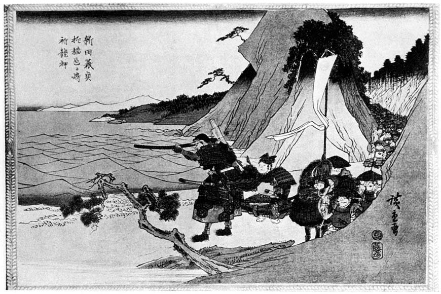 Nitta Yoshisada offering his sword to god Ryujin at Inamuragasaki